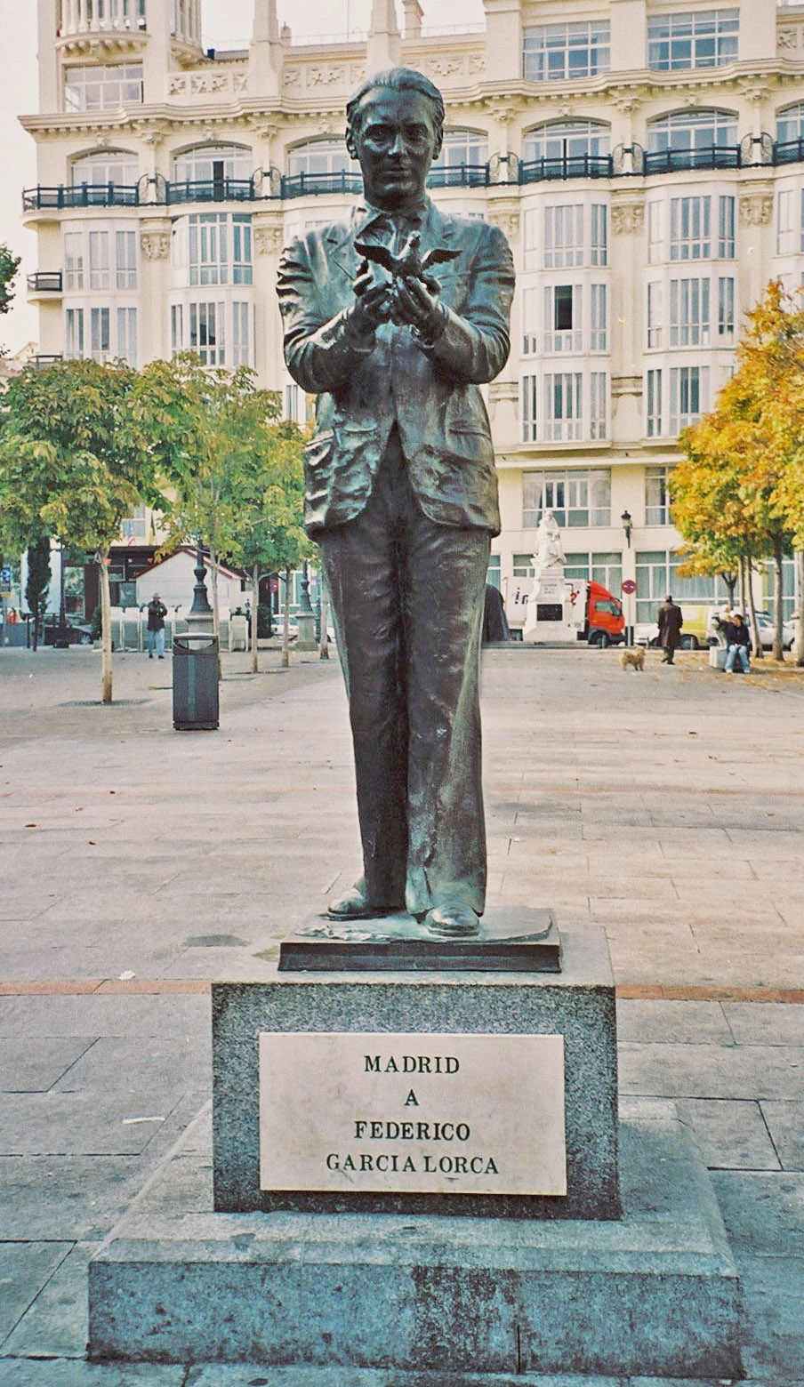 Statue of Federico García Lorca (1898–1936) in the Plaza de Santa Ana (square in Madrid, Spain). Made by sculptor Julio López Hernández (born 1930) in 1986.